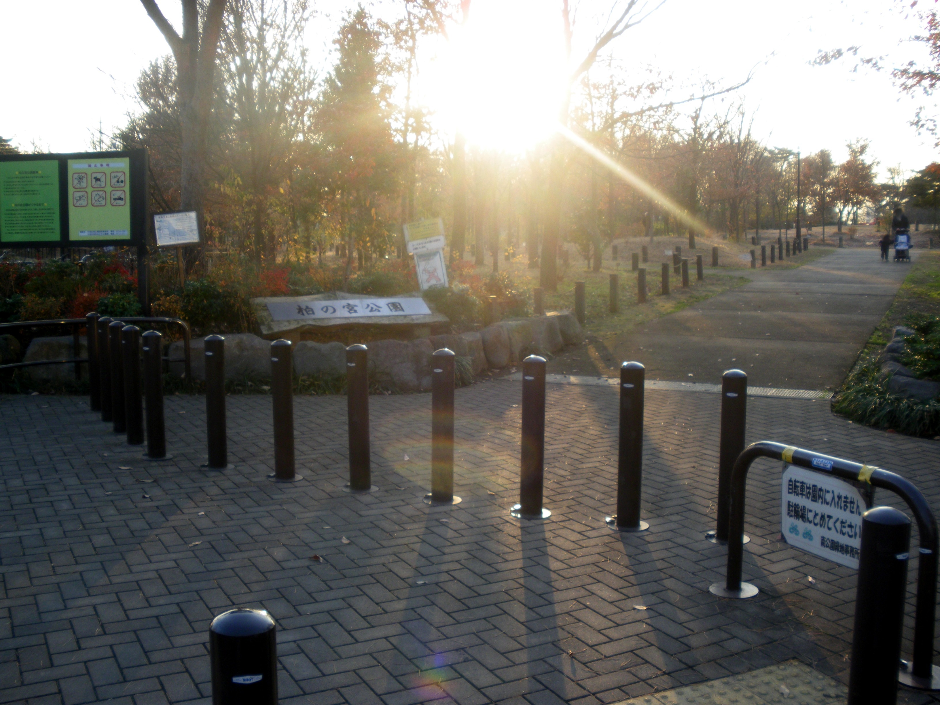 Kashiwa no Miya Park(Hamadayama,Suginami,Tokyo)